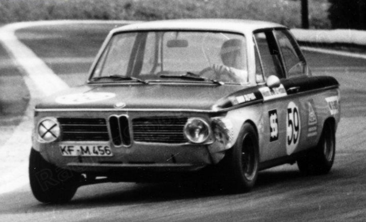 Ferfried of Hohenzollern, Brno, Czech Republic, May 25, 1969, BMW 1600 TI, Registration: KF-M 456